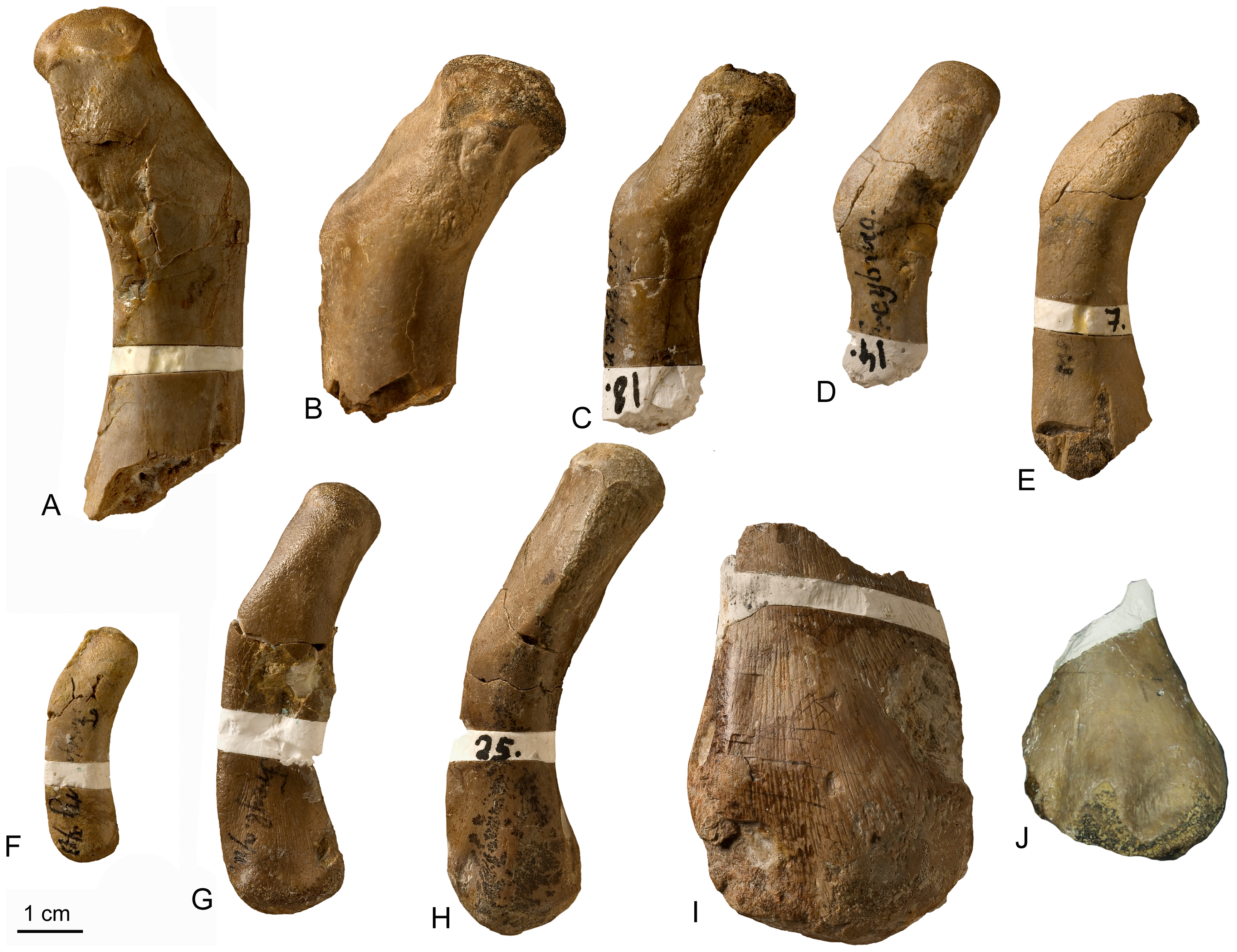 Nothosaurus humeri from Freyburg locality in dorsal view.